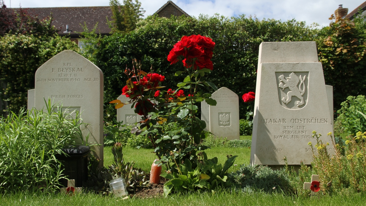 Gravestones of Cpl F Błyskal and Sgt O Odstrčílek in St Helen's churchyard extension, Benson, Oxfordshire